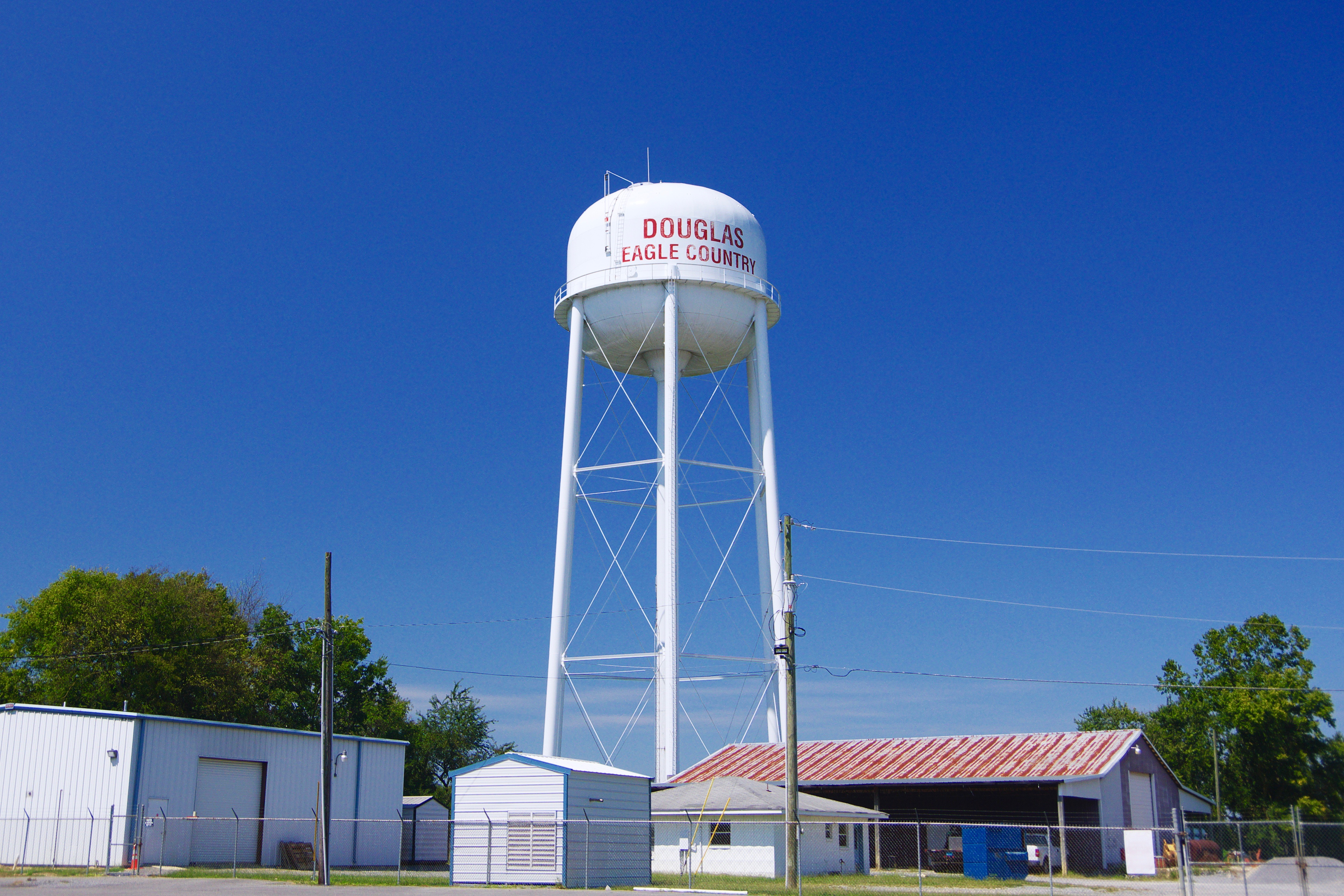 Water tower in Douglas, Alabama, United States. "Eagle Country" refers to the Douglas High School mascot.